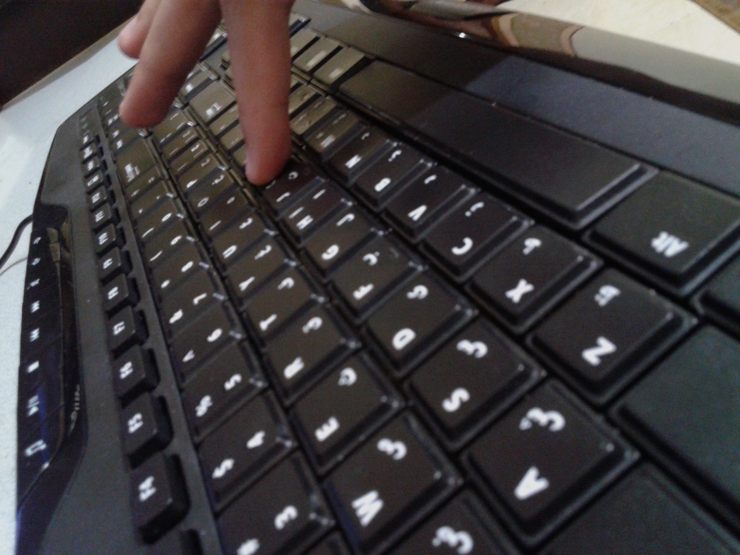 Typing with "QWERTY" keyboard.